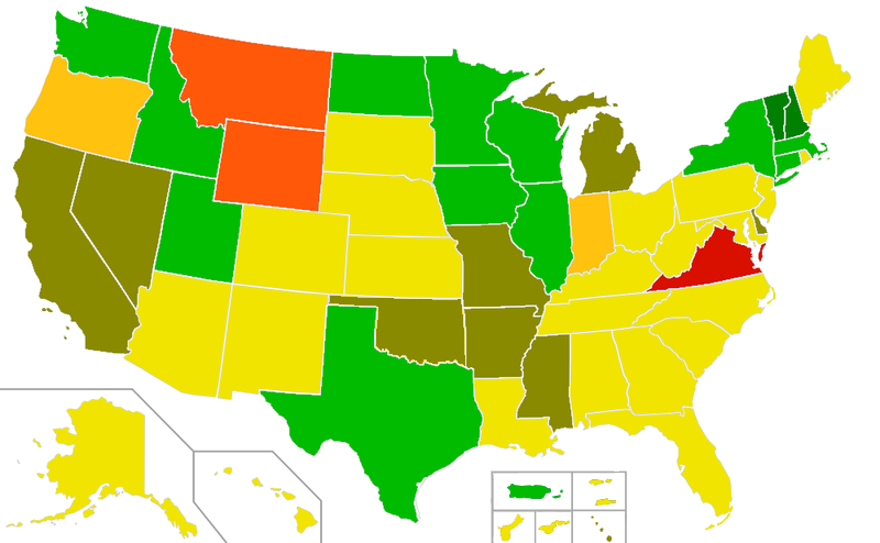 Map of gubernatorial term limits in the U.S.